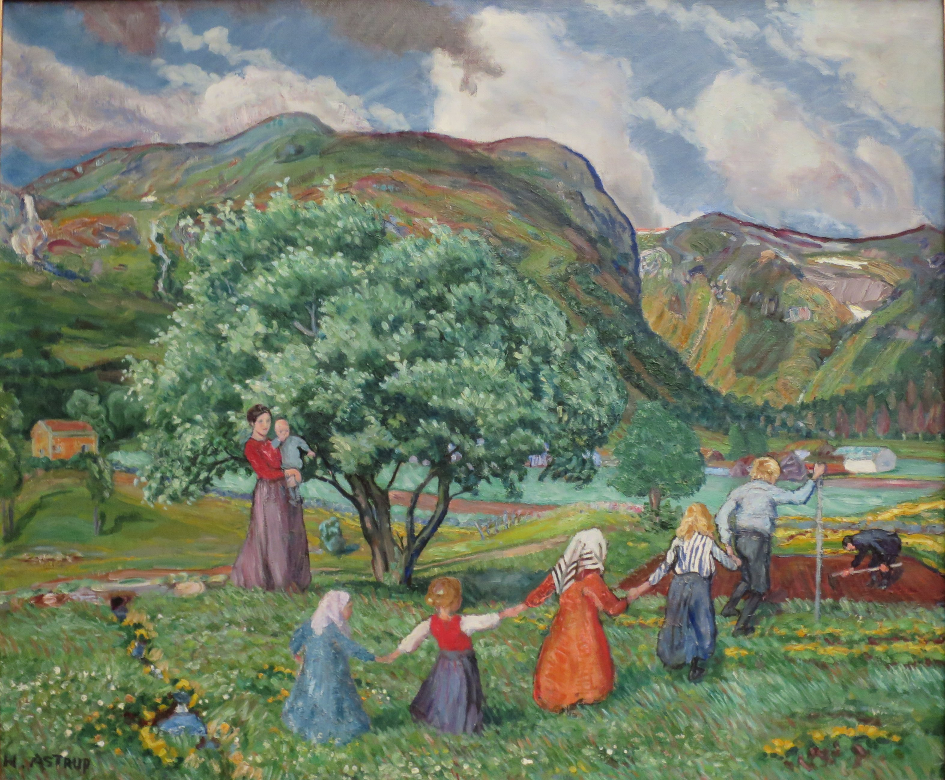 Summer and Playing Children by Nikolai Astrup, 1913, oil on canvas, Bergen Kunstmuseum